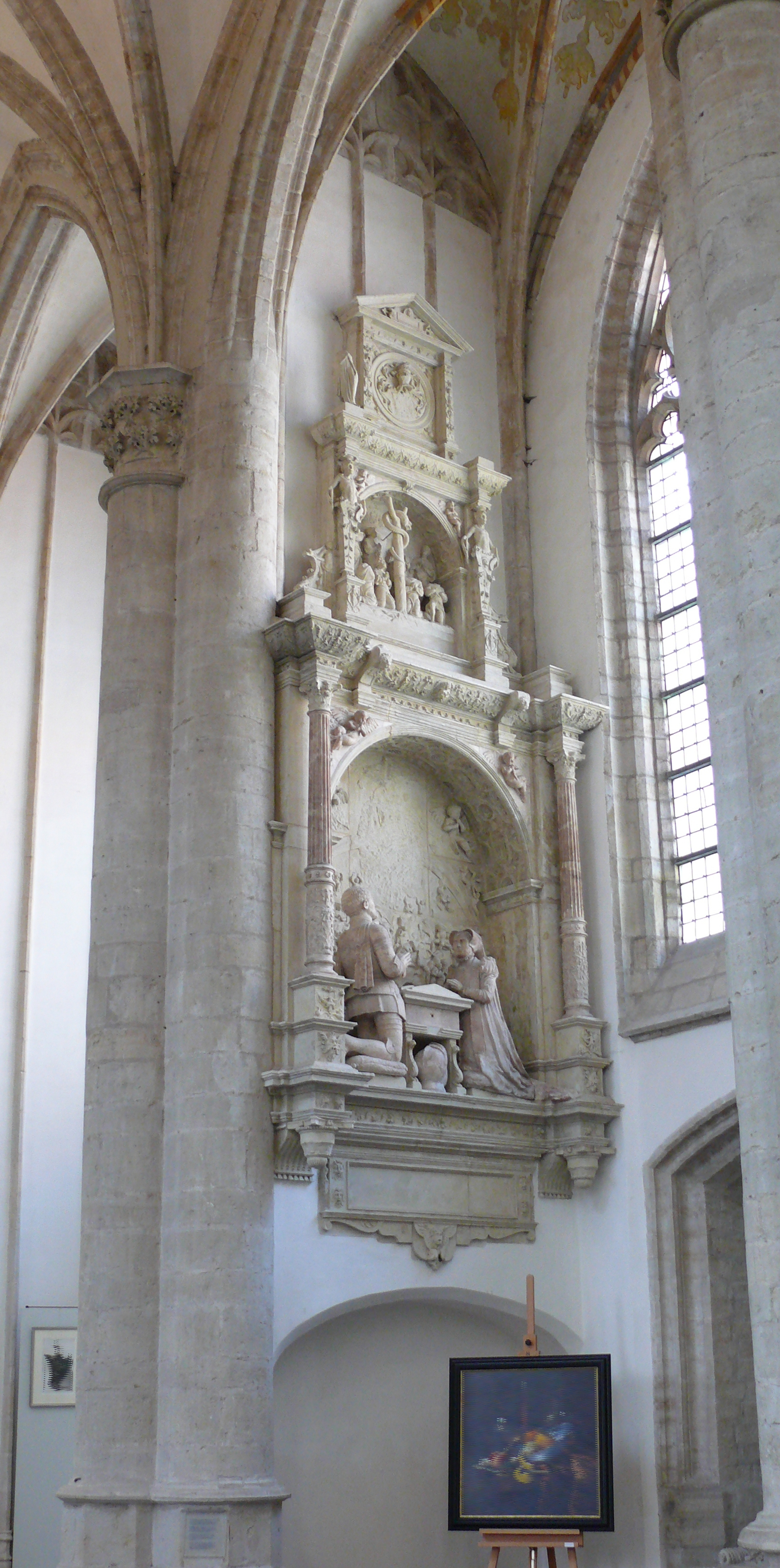 Epitaph for Dirk van Assendelft (1498-1553), sheriff of Breda, and his wife Adriana van Nassau (1512 - 1558) in a chapel along the north aisle of the Grote Kerk, also Onze-Lieve-Vrouwekerk (Great Church or Our Lady's Church) in Breda.